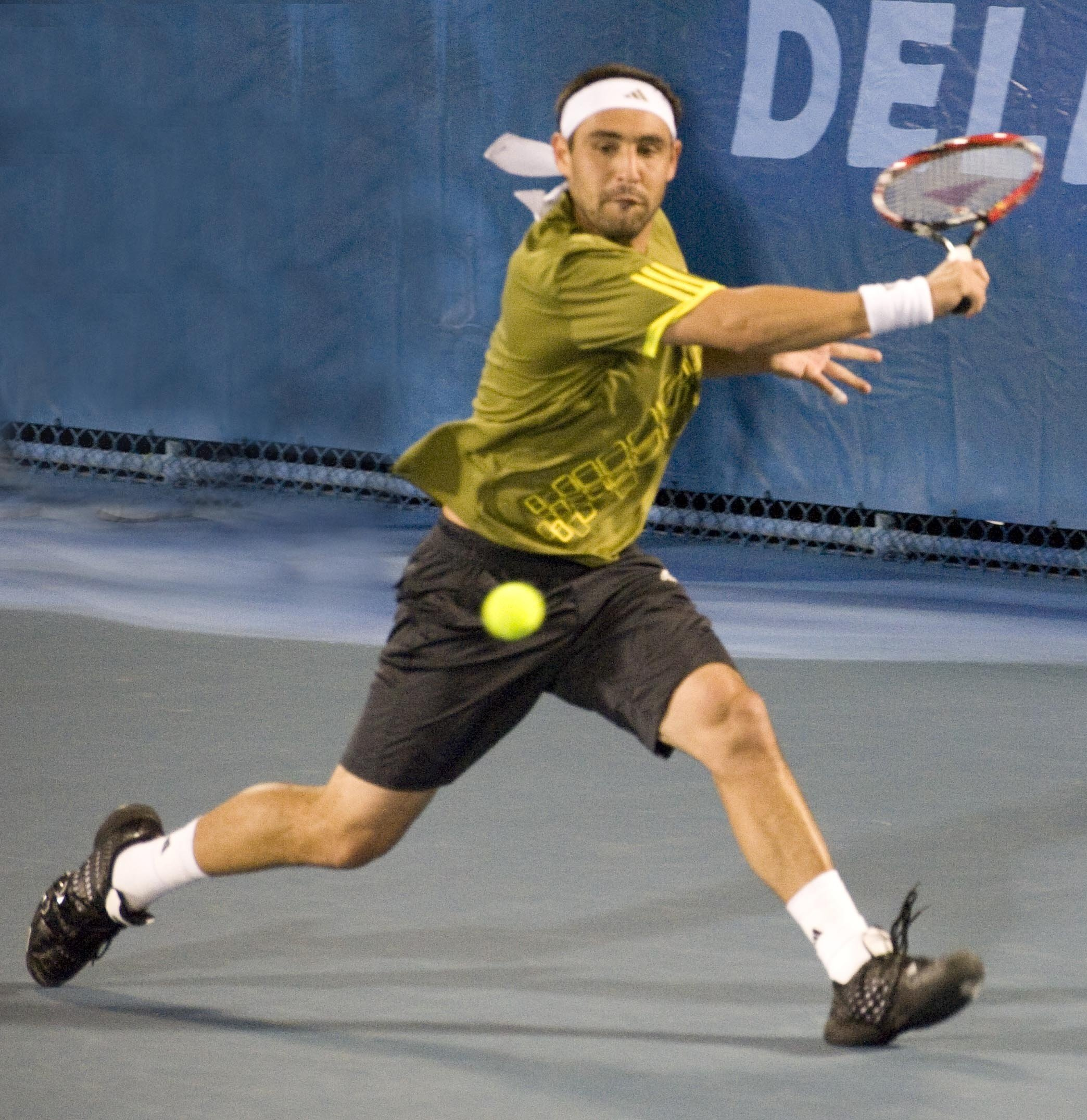 Marcos Baghdatis at 2009 Delray Beach International Tennis Championships, Delray Beach, Florida, United States